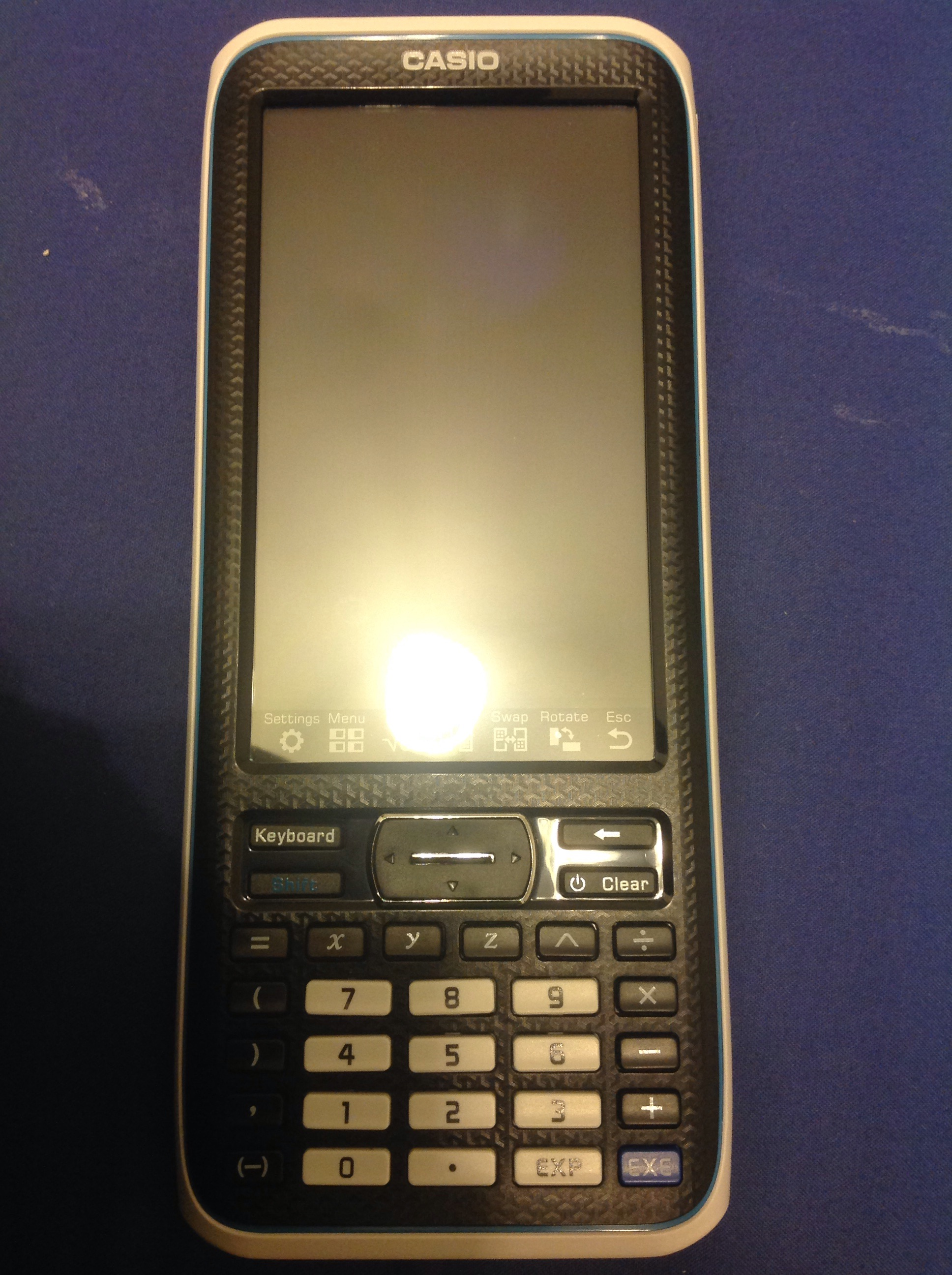 A Casio ClassPad fx-CP400.